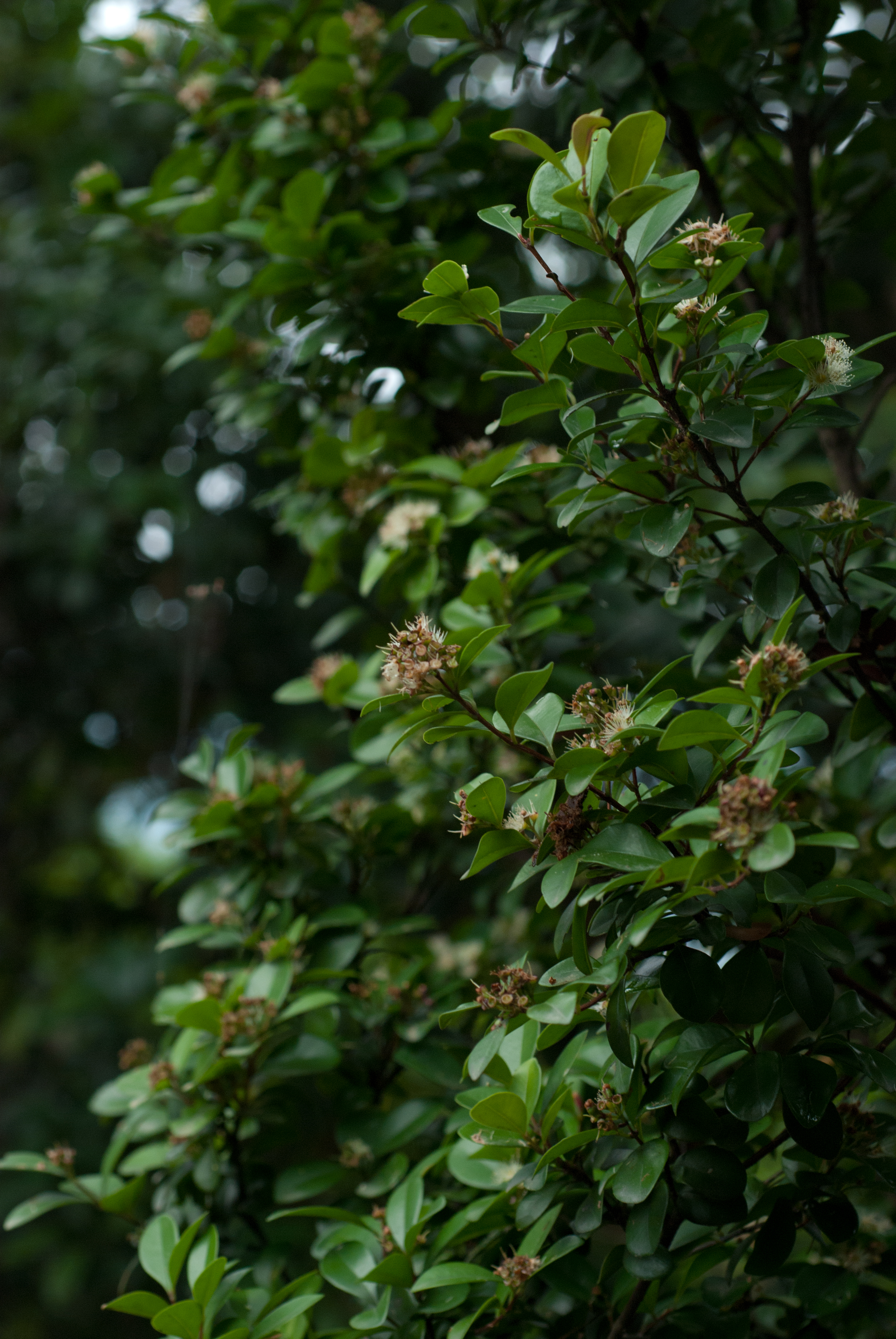 Syzygium buxifolium.